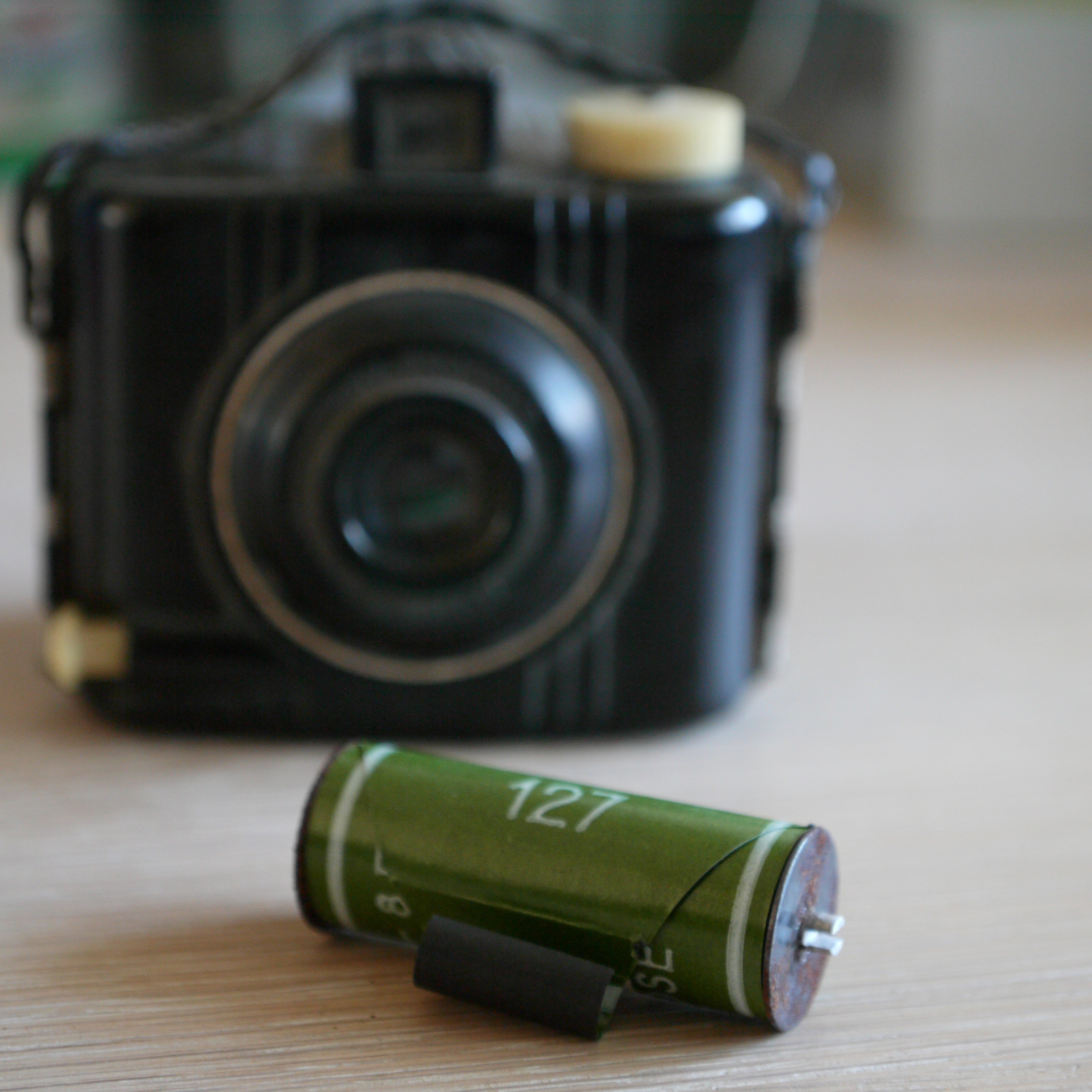 127mm film with a Baby Brownie camera in the background